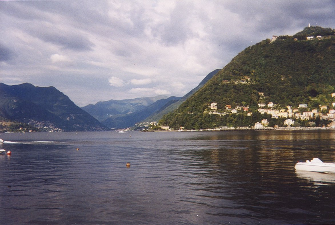 Lake Como from the town of Como.